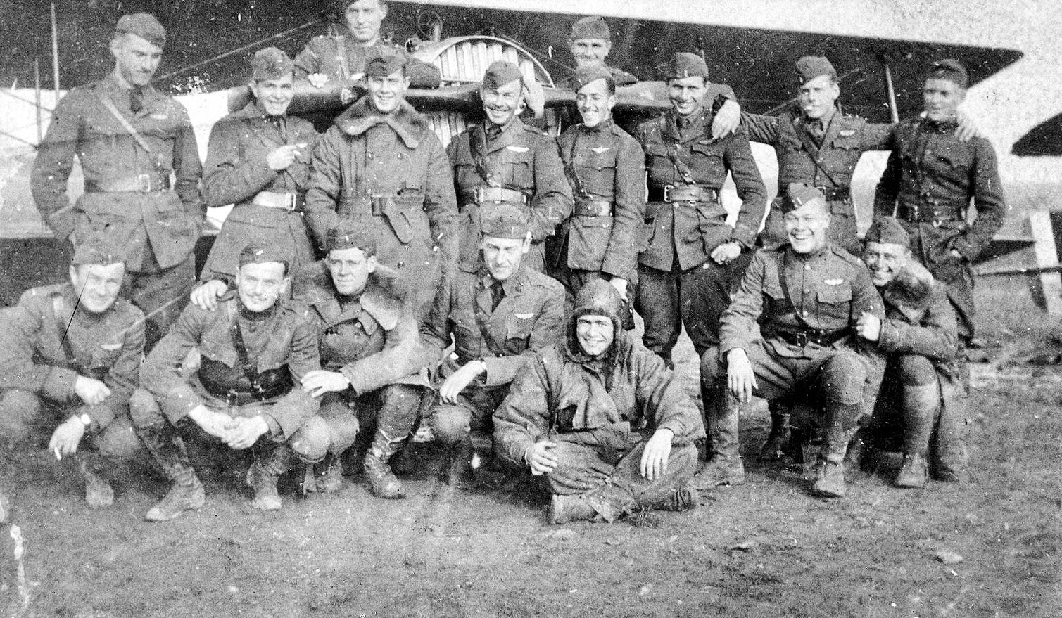 1st Aero Squadron - Julvecourt